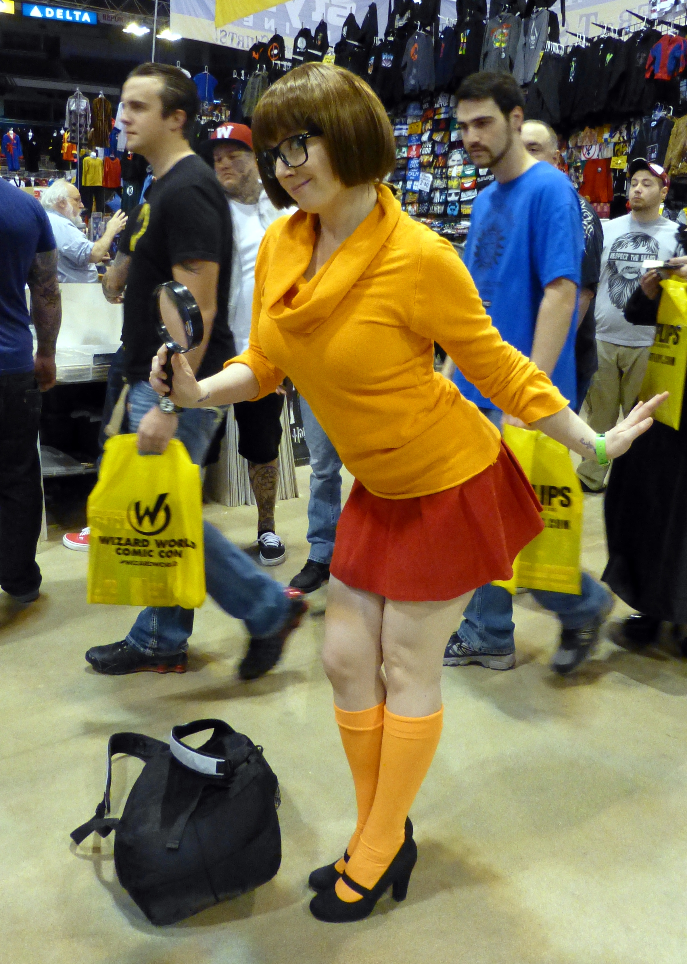 Cosplay of Velma (from the Scooby Doo series) at Wizard World St. Louis 2014.